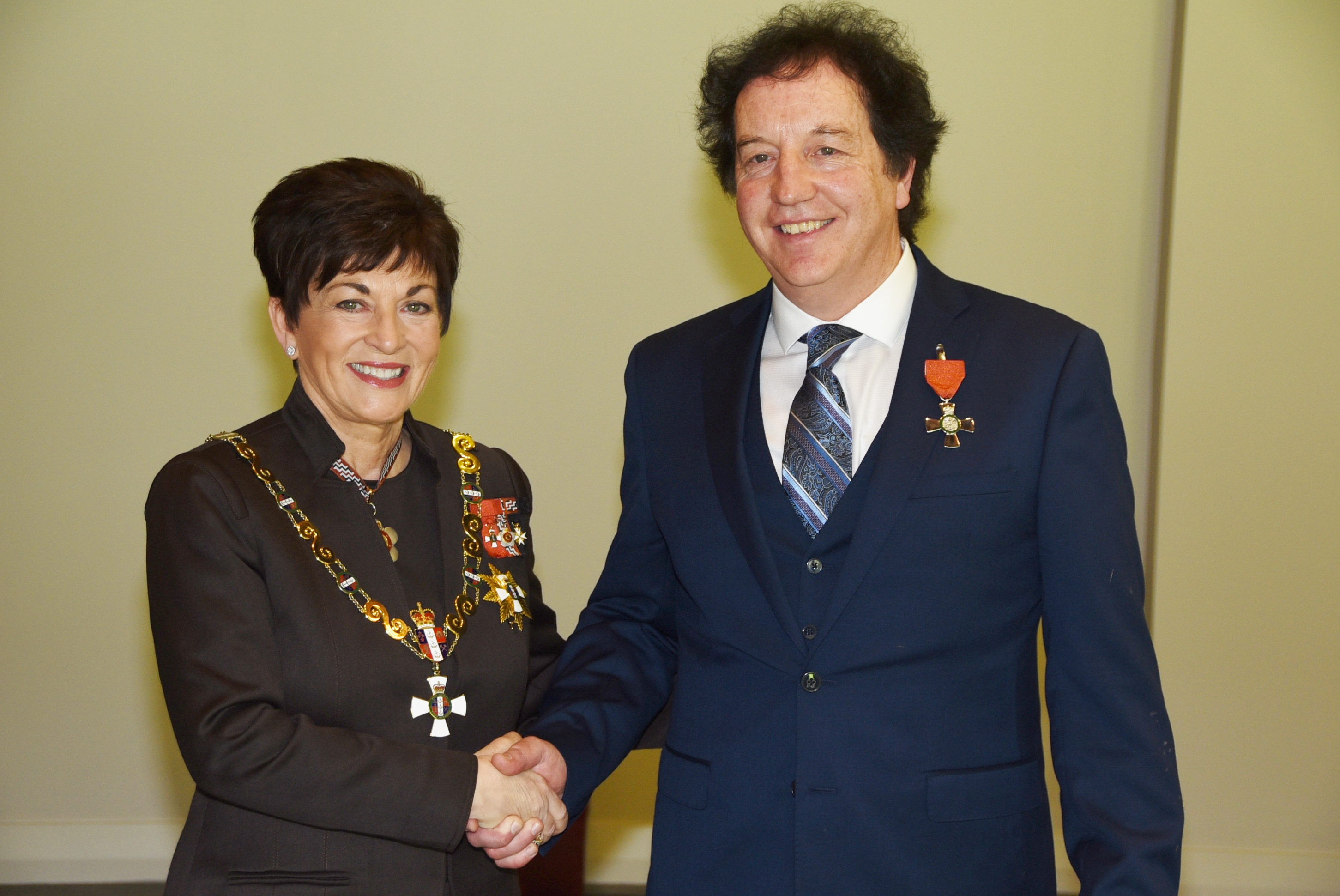 Gary Schofield, after his investiture as MNZM, for services as an artist and to New Zealand-United States relations, by the governor-general, Dame Patsy Reddy, on 6 October 2016